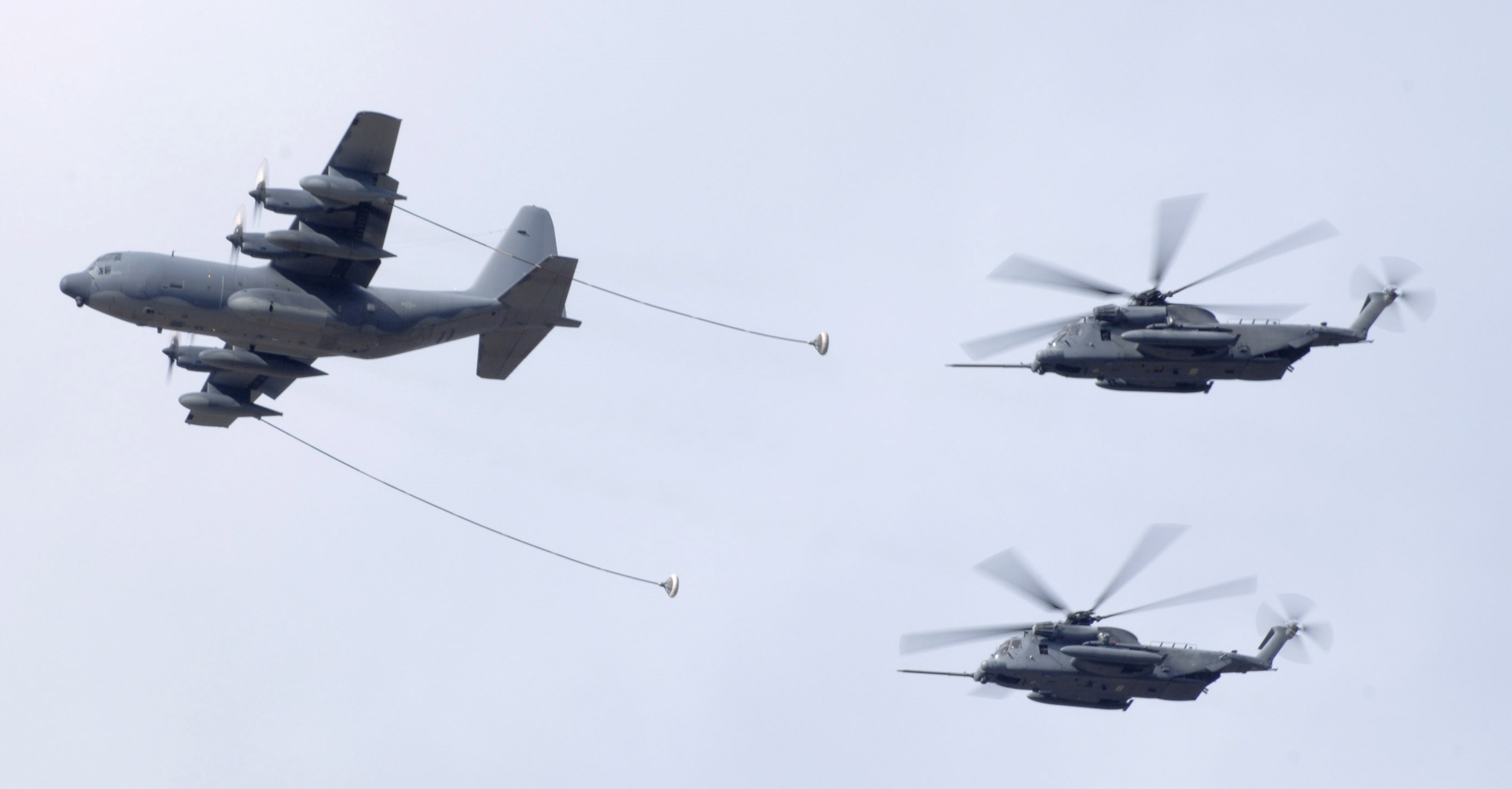 A MC-130W refuels two MH-53J Pave Lows during an air demonstration ceremony Nov 16 at Hurlburt Field, Fla. The ceremonial is part of the Hurlburt Field's Heritage to Horizon.